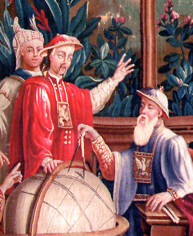 Jesuit_astronome_with_Kangxi_Emperor.jpg